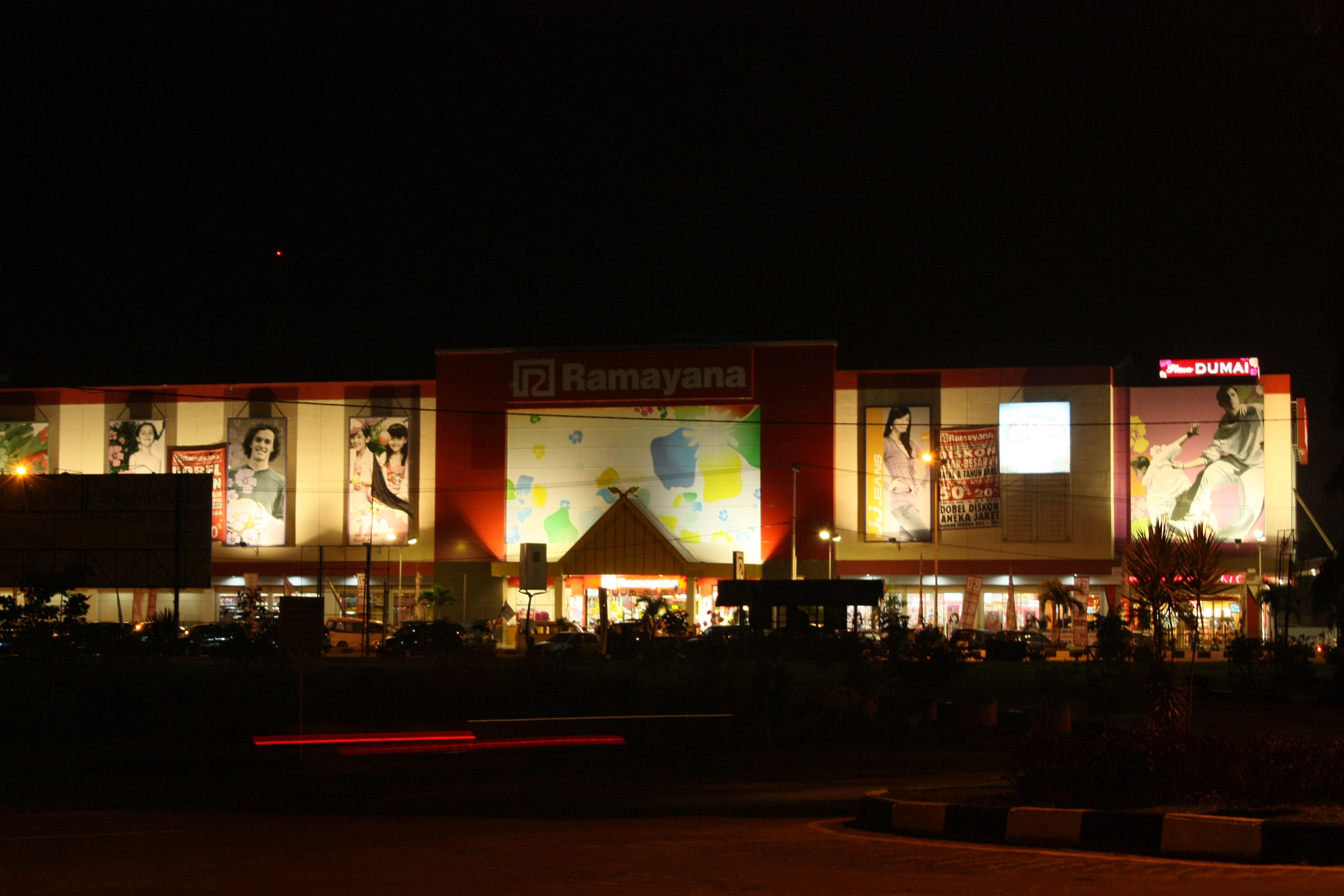 Plaza Dumai, Ramayana Department Store, Dumai, Indonesia.